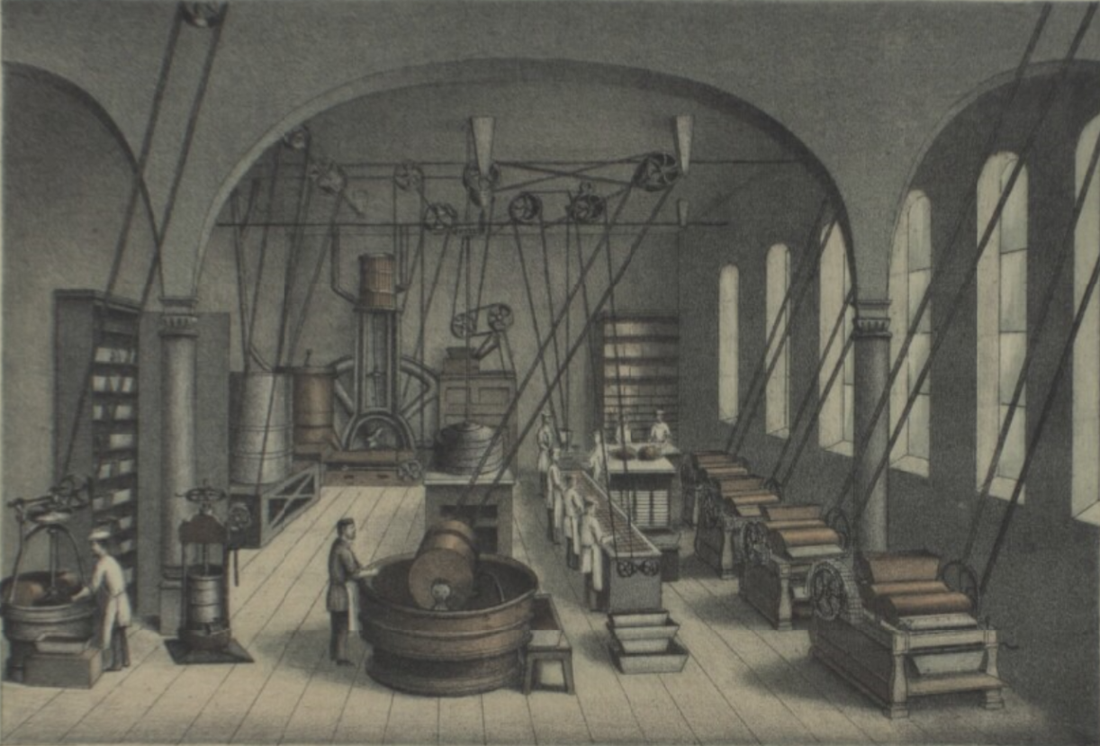 The Cloetta brothers' chocolate factory in Niels Hemmingsens Gade in Copenhagen, Denmark